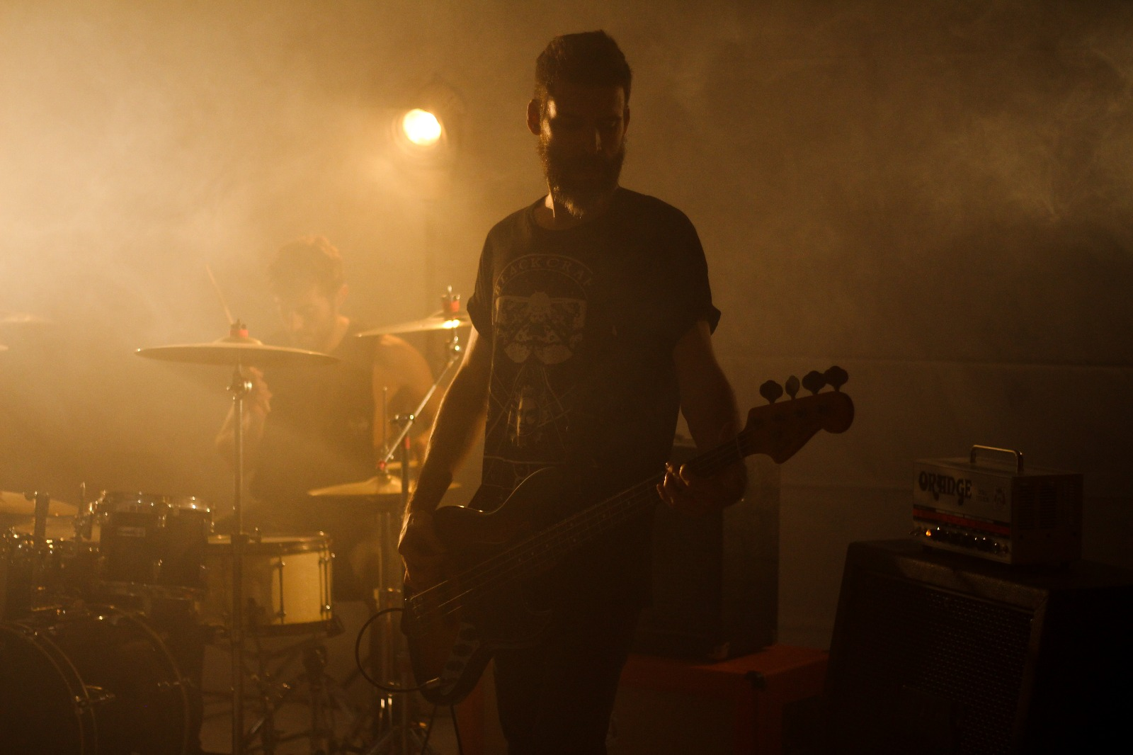 Bass Player NTBF